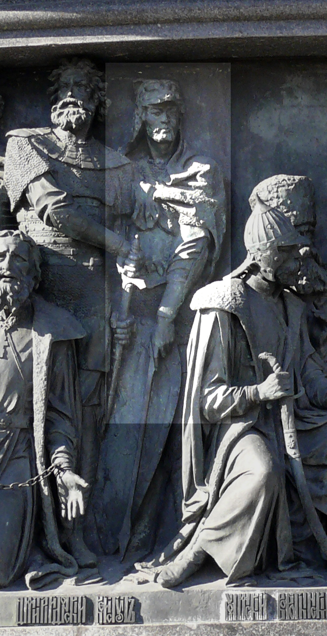 Prince Keistut on the Monument «Millennium of Russia» in Veliky Novgorod